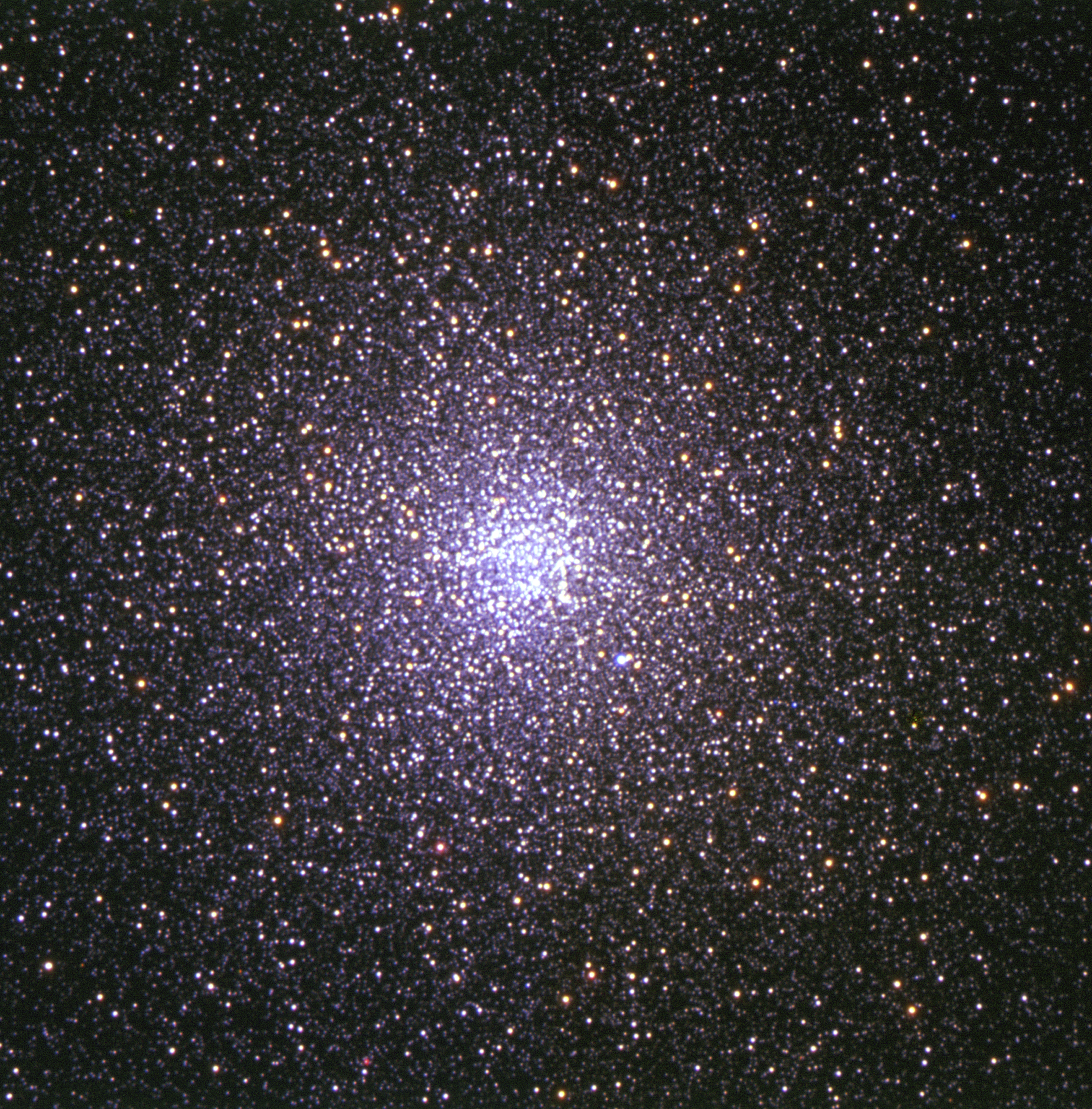 Based on data obtained with FORS1 on Kueyen, UT2 of the Very Large Telescope. The image, 7 arcmin wide, covers the central core of the 30 arcmin large globular cluster. The observations were taken in three different filters: U, R, and a narrow-band filter centred around 485 nm, for a total exposure time of less than 5 minutes. The data were extracted from the ESO Science Archive and processed by Rubina Kotak (ESO) and the final image processing was done by Henri Boffin (ESO). North is up and East is to the left.